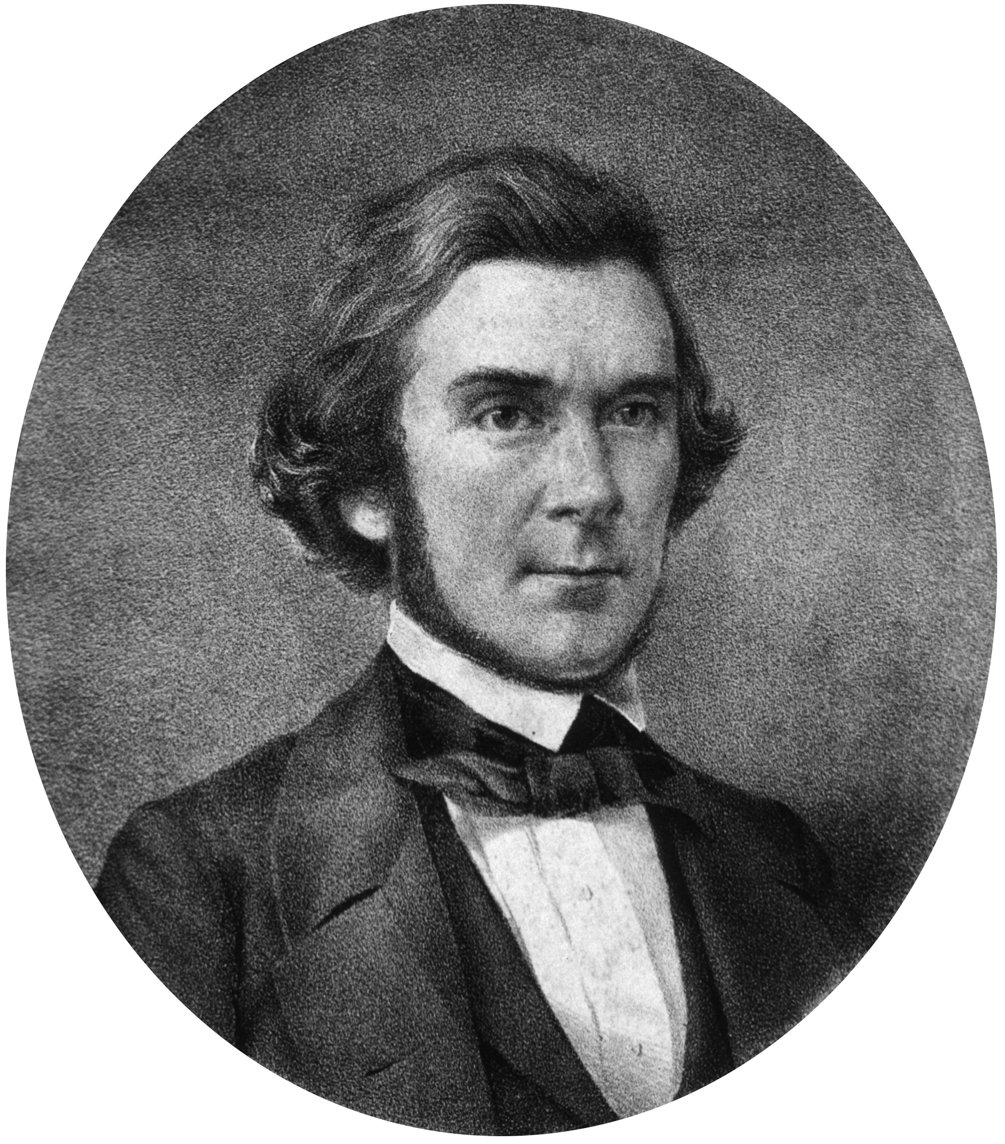 Dickson, Samuel Henry (1798-1872), head and shoulders, full face, as a young man. U.S. National Library of Medicine